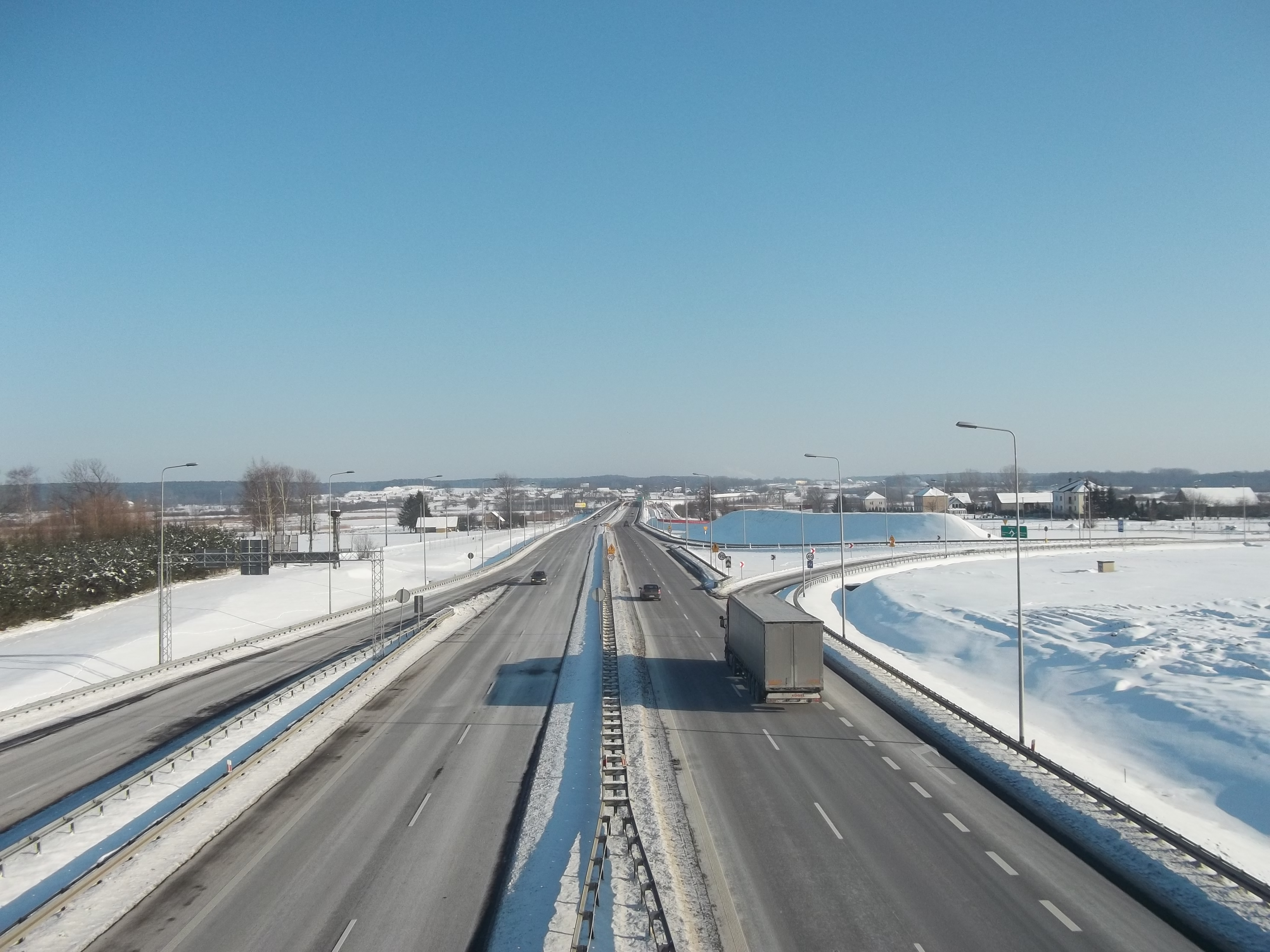 Expressway S8 in Złotoria